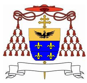 Coat of arms of Cardinal Enrico Rampini